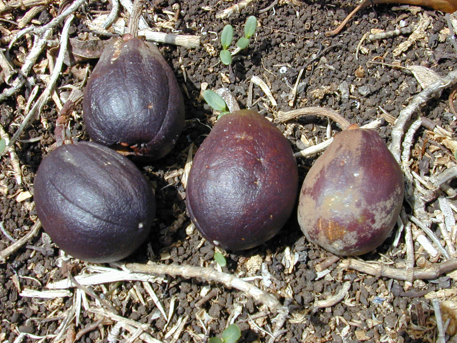 Pouteria sandwicensis (fruits). Location: Maui, Auwahi